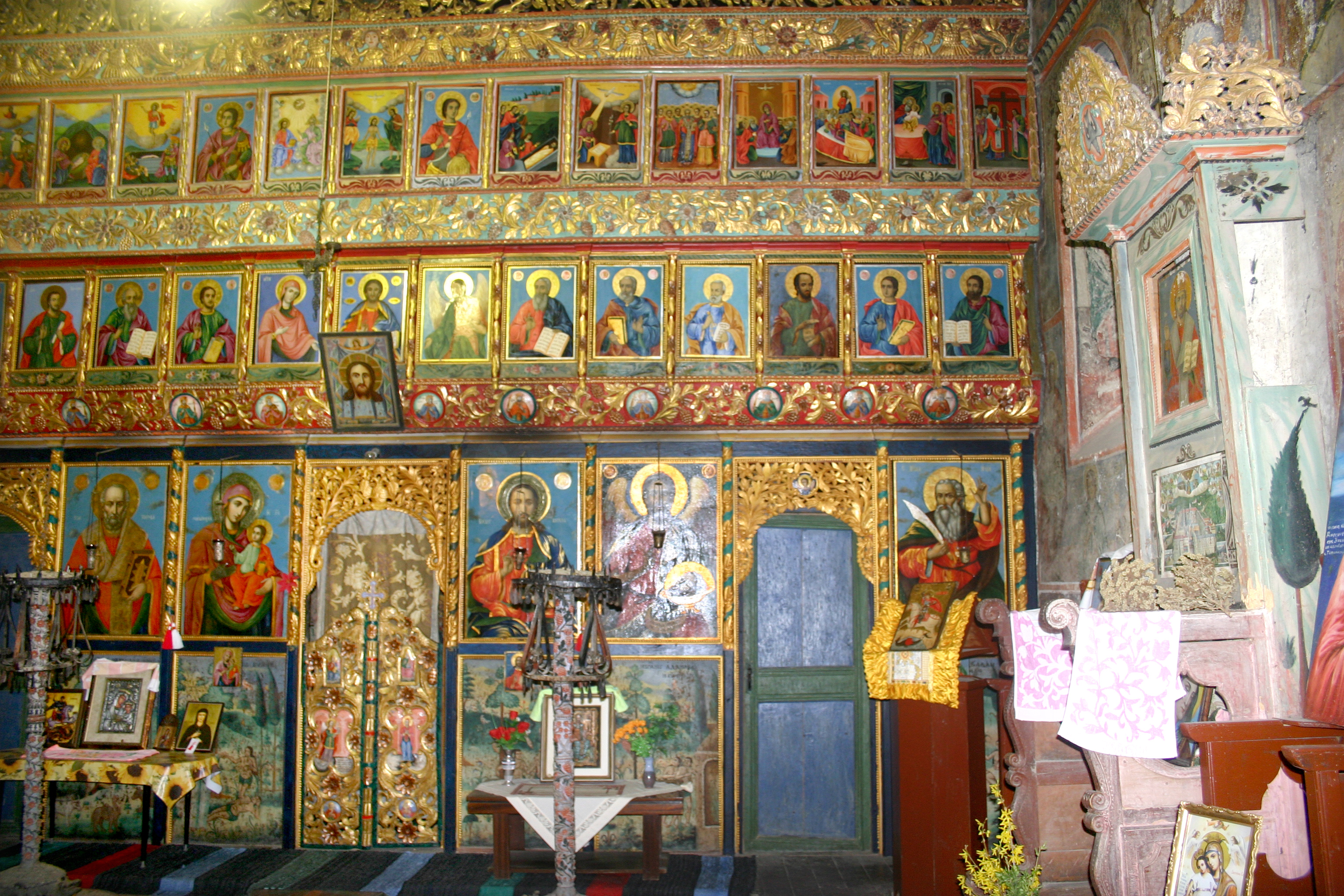 This photo is provided by the Historical Museum in Dupnitsa and is included in the album "Dupnitsa through the centuries" („Дупница през вековете“). Dupnitsa Municipality, Historical Museum - Dupnitsa. ISBN 978-954-8187-89-3.